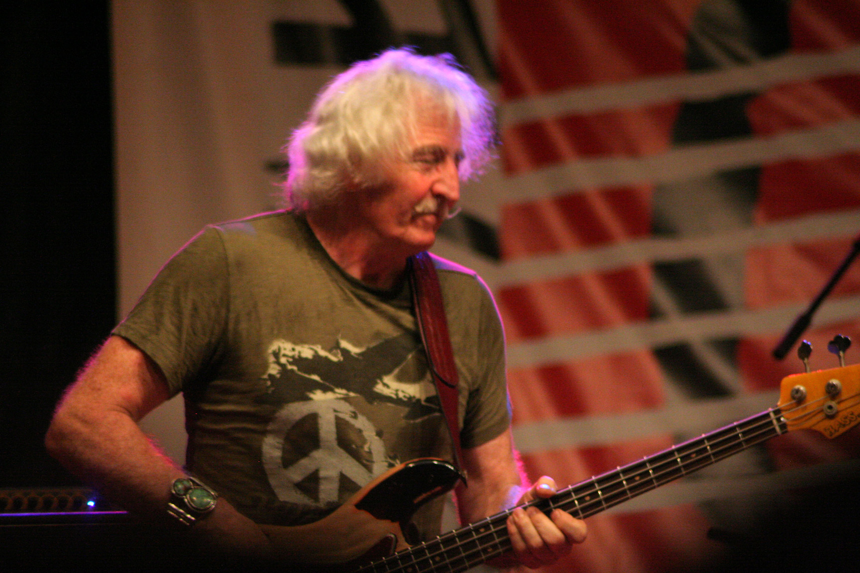 Ten Years After at Suwałki Blues Fesival 2009 in Suwałki.